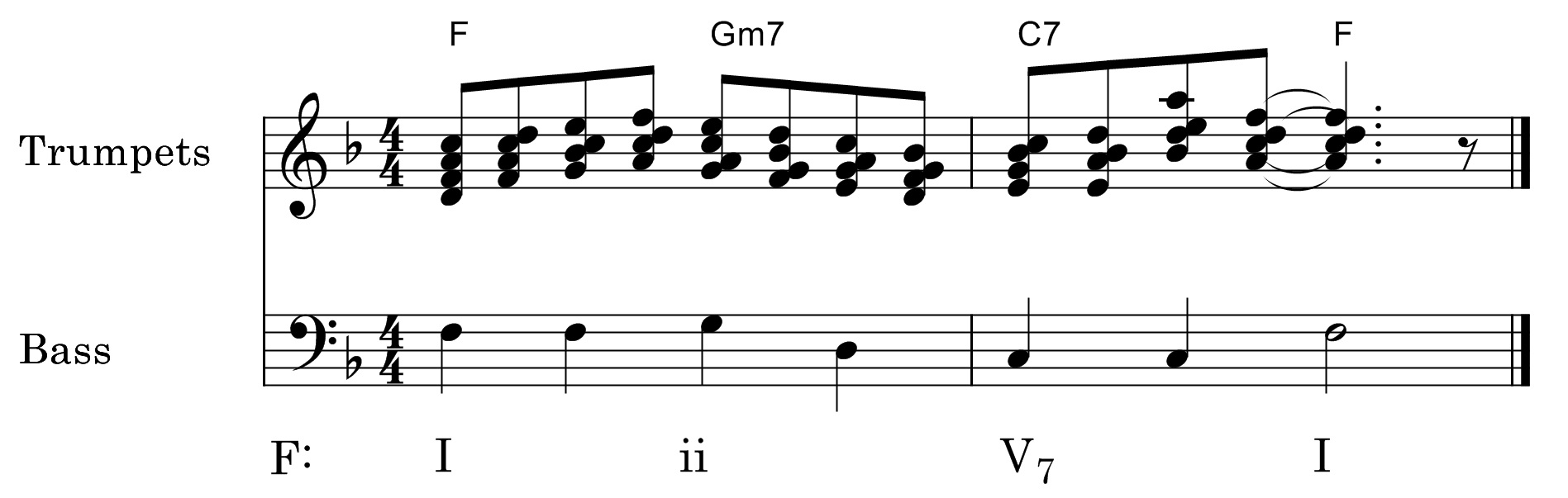 4 voice sectional harmony in close voicing.